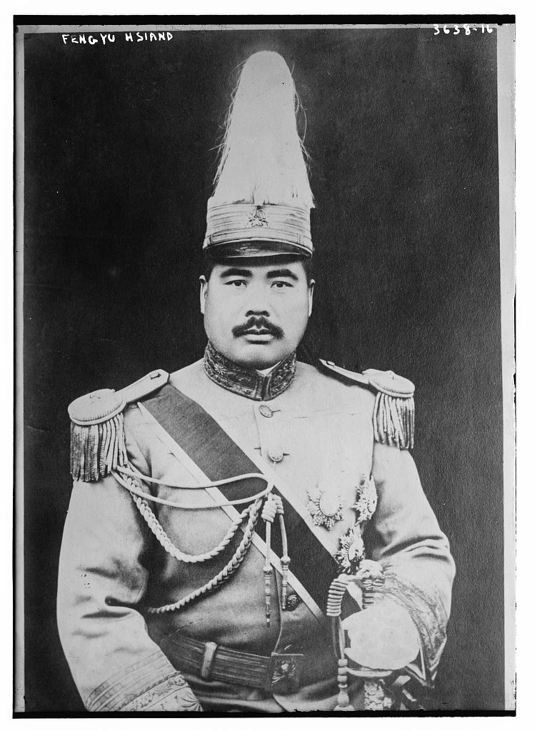 Chinese warlord Feng Yuxiang